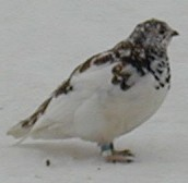 This White-tailed Ptarmigan (Lagopus leucura) didn't mind a vehicle passing on the opposite side of Trail Ridge Road in Rocky Mountain National Park, Colorado. Photographer User:Ke4roh's mother-in-law, an avid birder was thrilled to see the animal atop a 3 m (10 ft) snow bank in May, 2001. 01:12, 22 June 2004 Ke4roh 172x168 (6436 bytes) (cropped) 01:10, 22 June 2004 Ke4roh 300x294 (50427 bytes) ( GFDL )